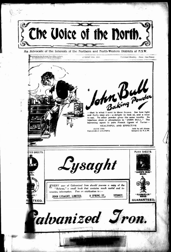 Front cover of the Voice of the North newspaper on 9 August 1918